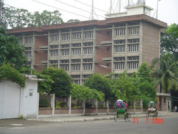 road view of the Udayan High school building